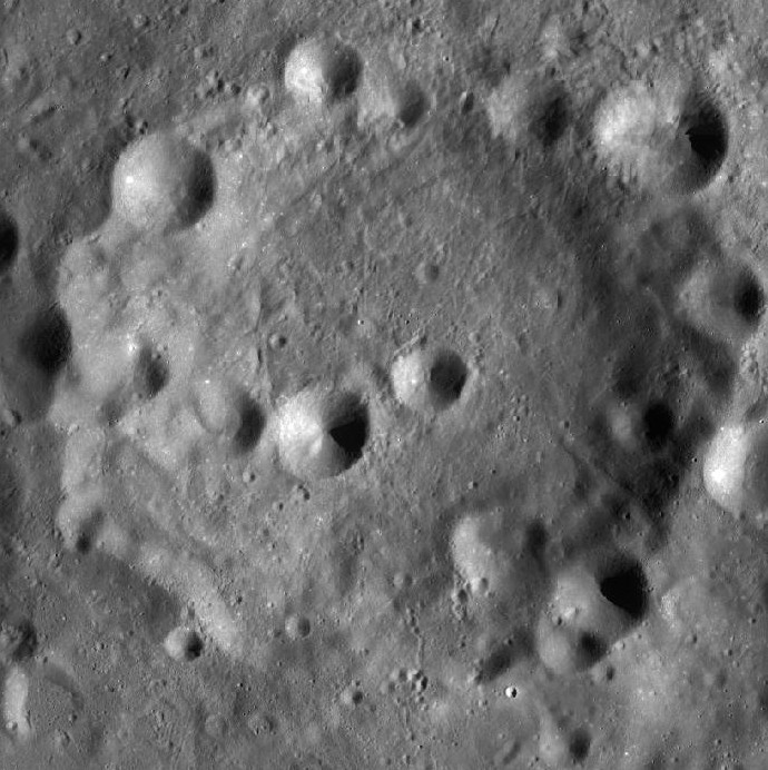 Kamerlingh Onnes crater, on the far side of the moon. Mosaic of LRO WAC images.